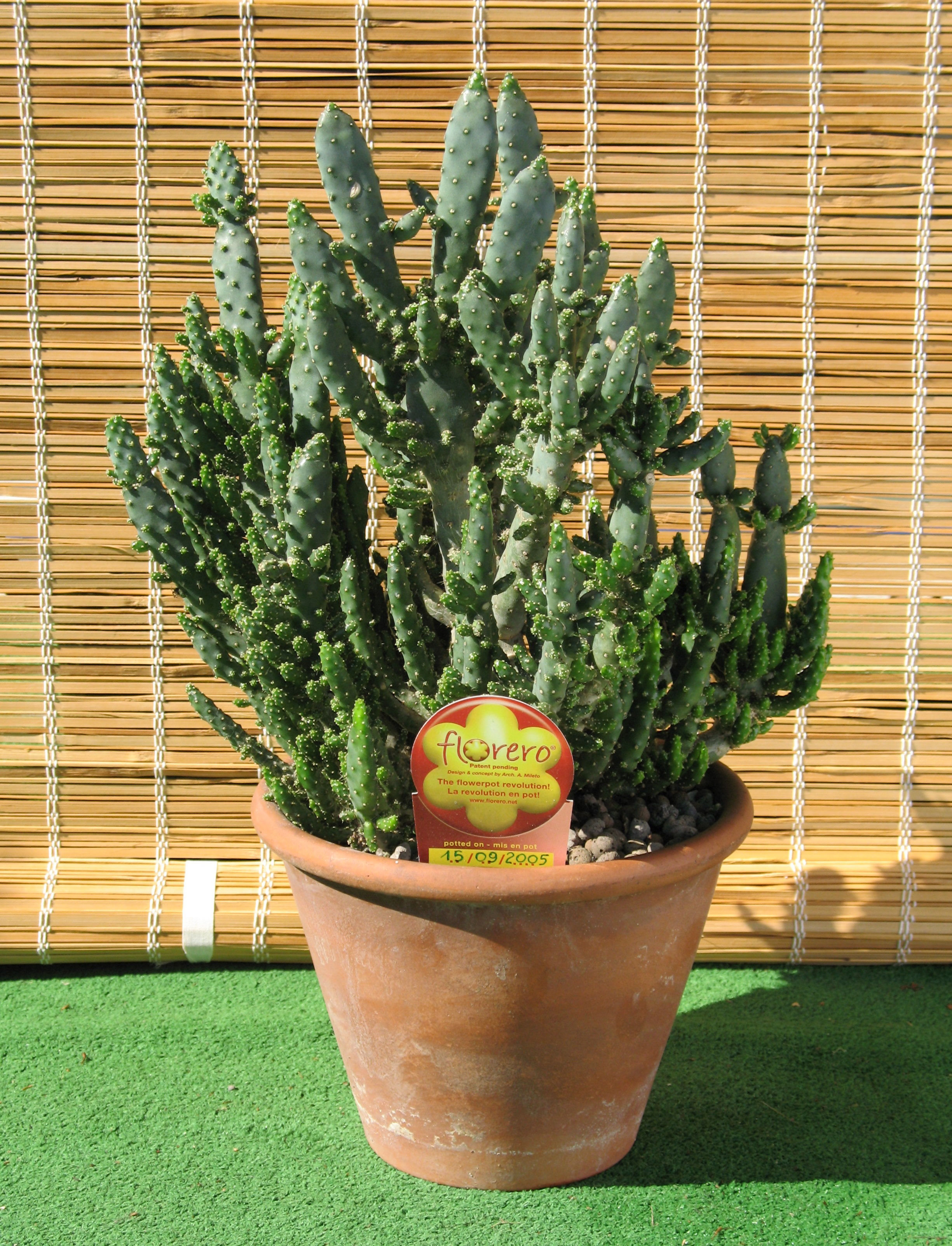 Opuntia monacantha in clay pot equipped by Florero(R)